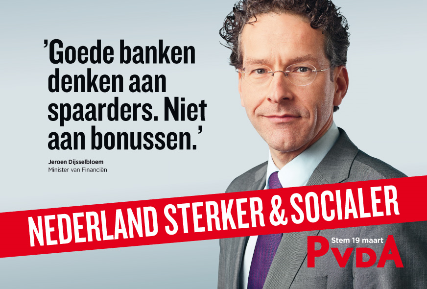 Poster voor de gemeenteraadsverkiezingen op 19 maart 2014. Deze poster hing op treinstations.